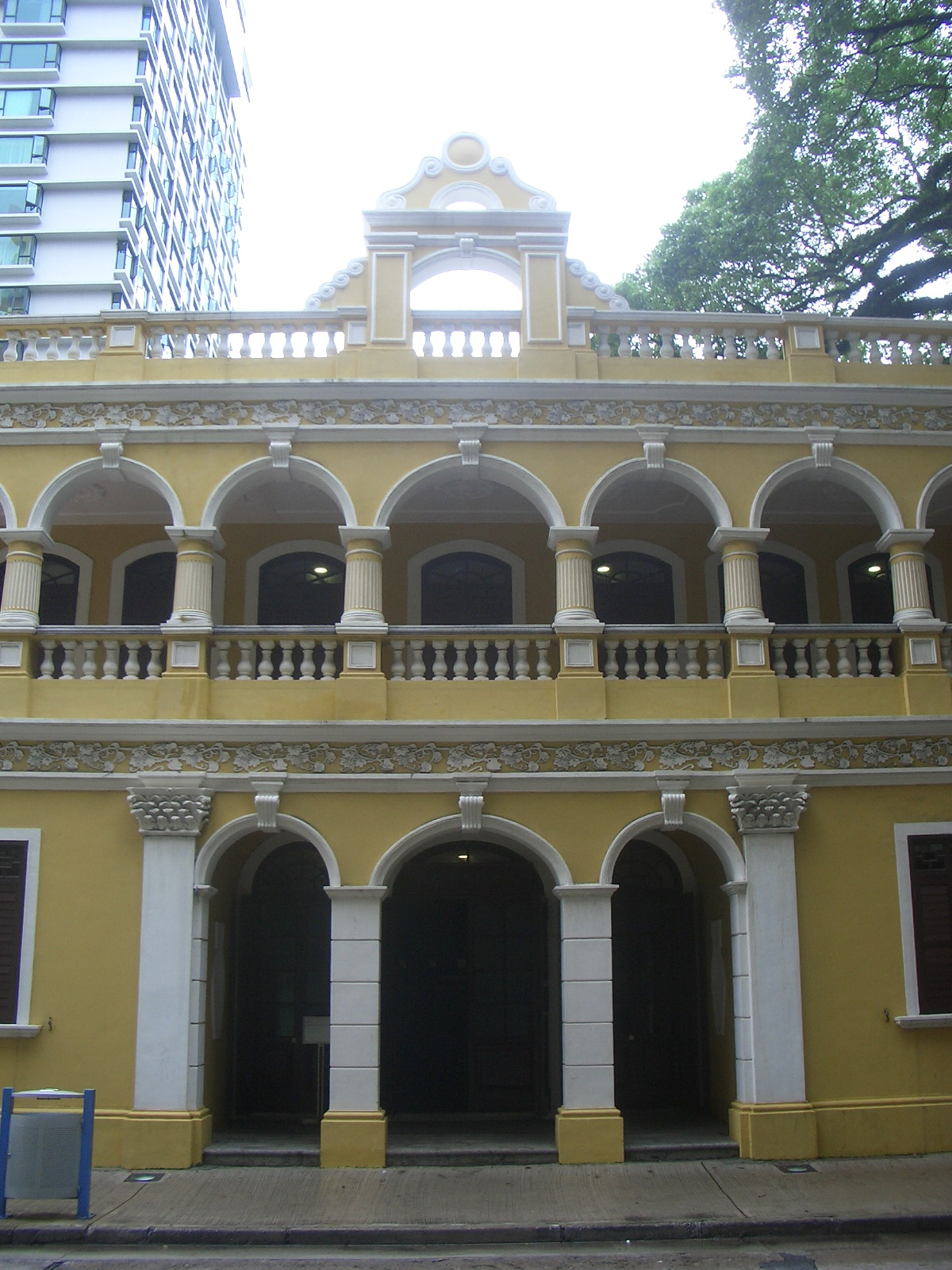 Macao Tea Culture House